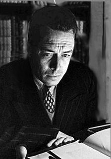 portrait of Albert Camus